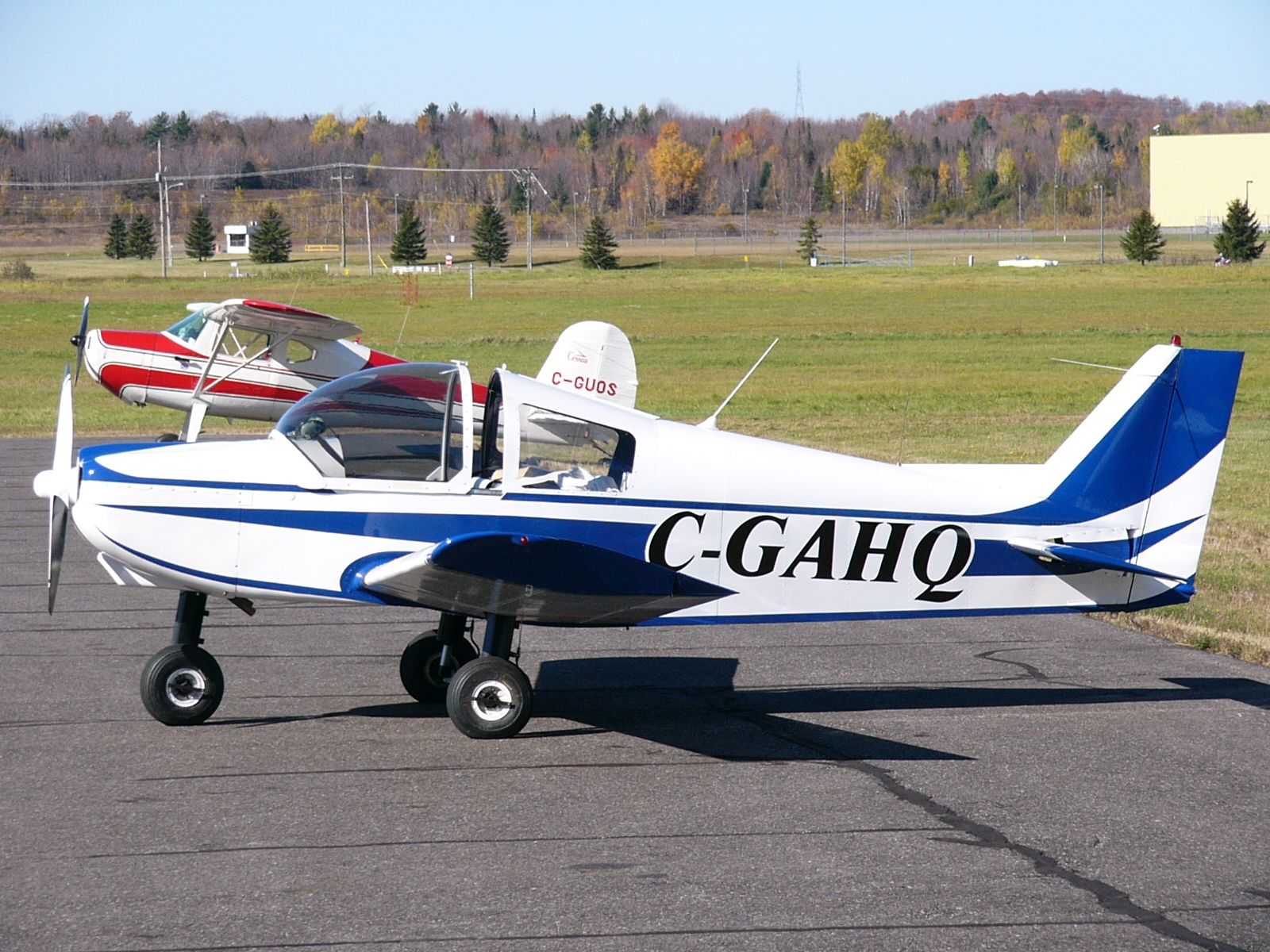 Zenair CH 250 at Brommont, Quebec, Canada